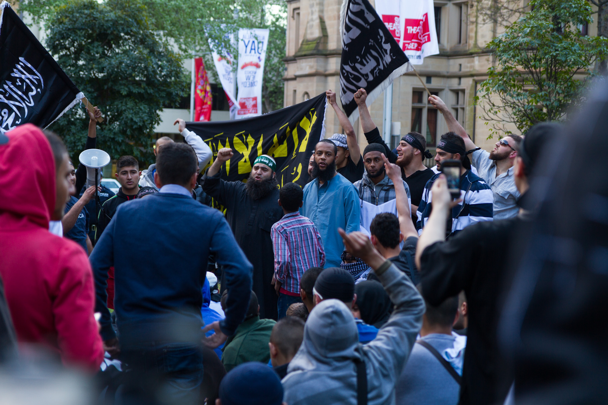 Image of protesters at the 2012 Sydney Anti-Islamic Film protest.